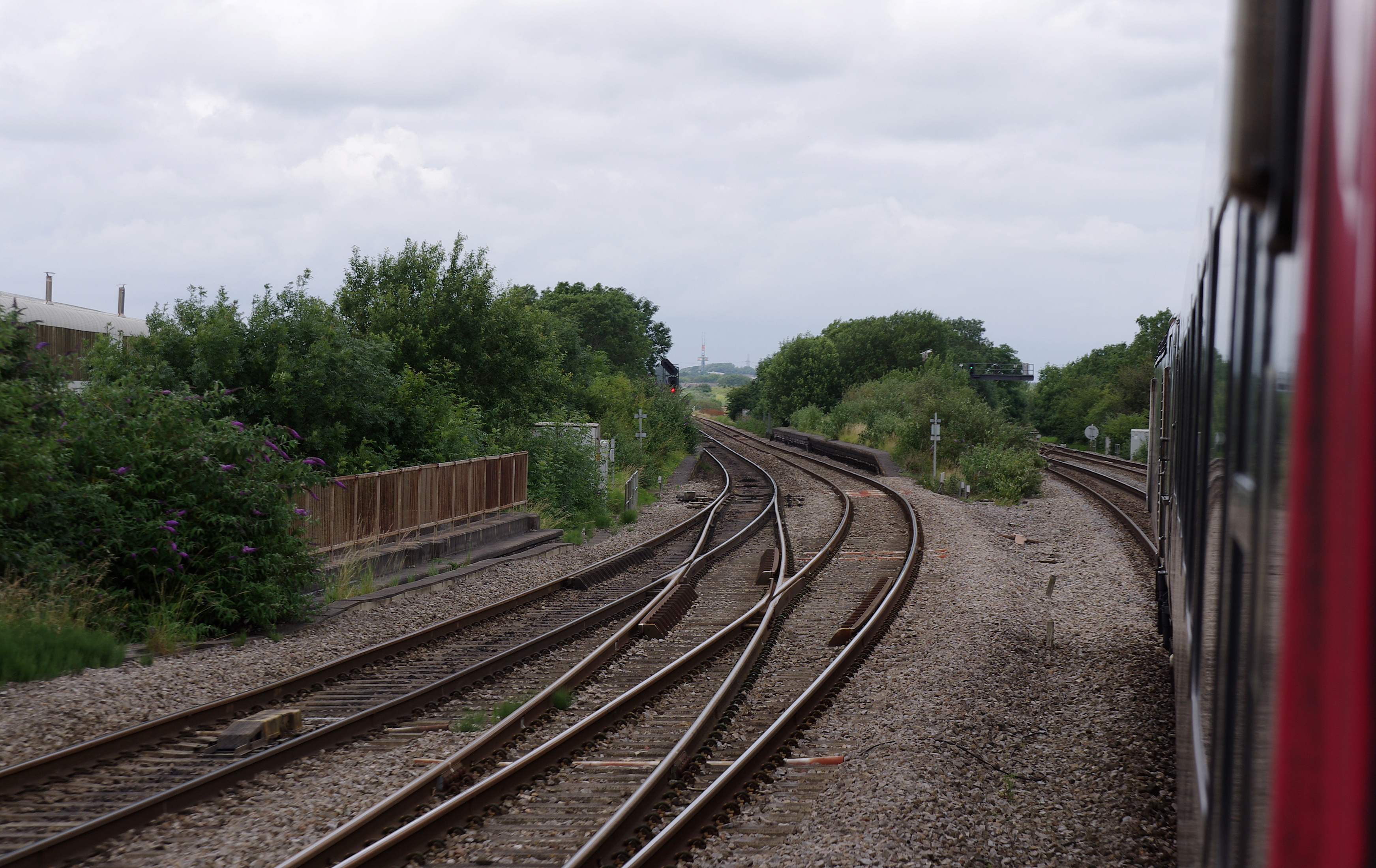 The remains of Filton Junction railway station.